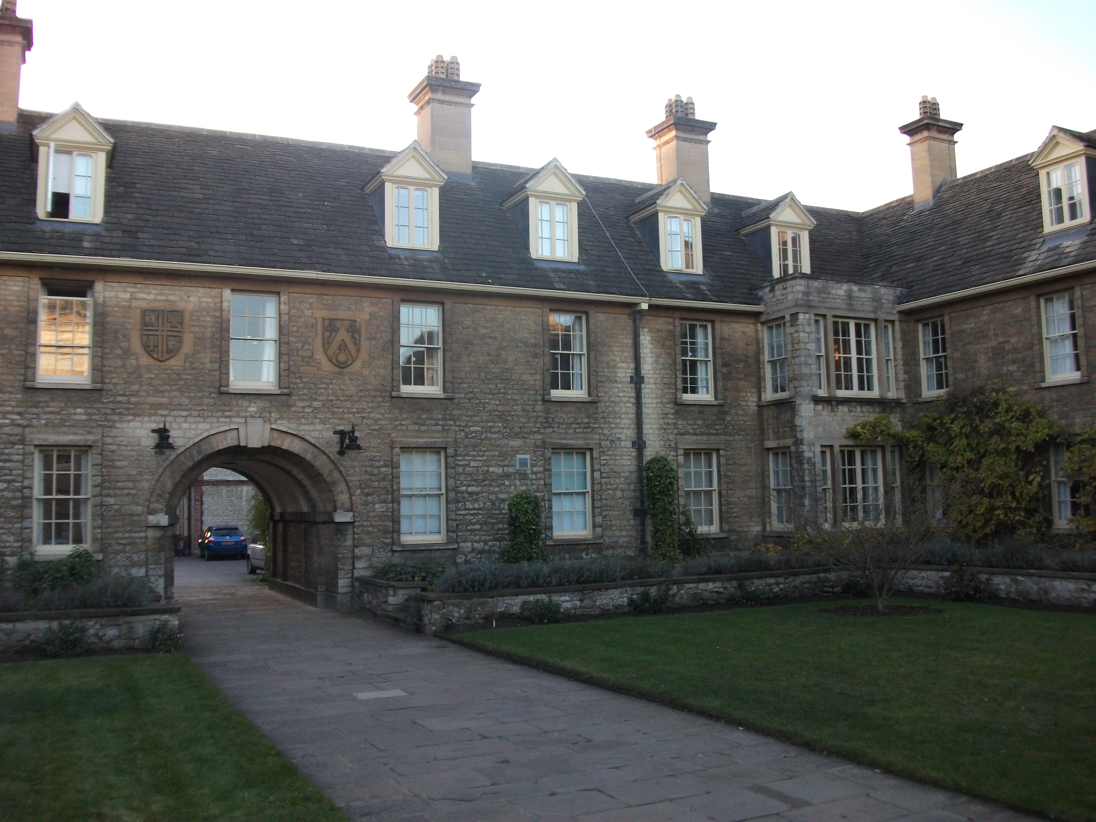 View from the college's main entrance towards the west.